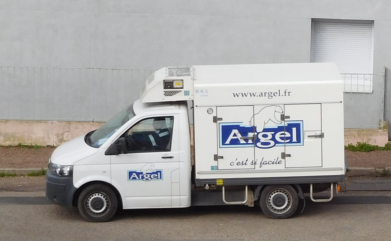 An Argel (Even Group) refrigerated van in France.